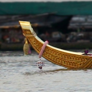 The bow of Royal Barge Anekchatbhuchongse of Thailand. Dress rehearsal on 29 October 2007 for 5 November 2007 Royal Barge Procession for Royal Kathin Ceremony at Wat Arun. This is a retouched picture, which means that it has been digitally altered from its original version. Modifications: De-emphasize background via blur and color desaturation.